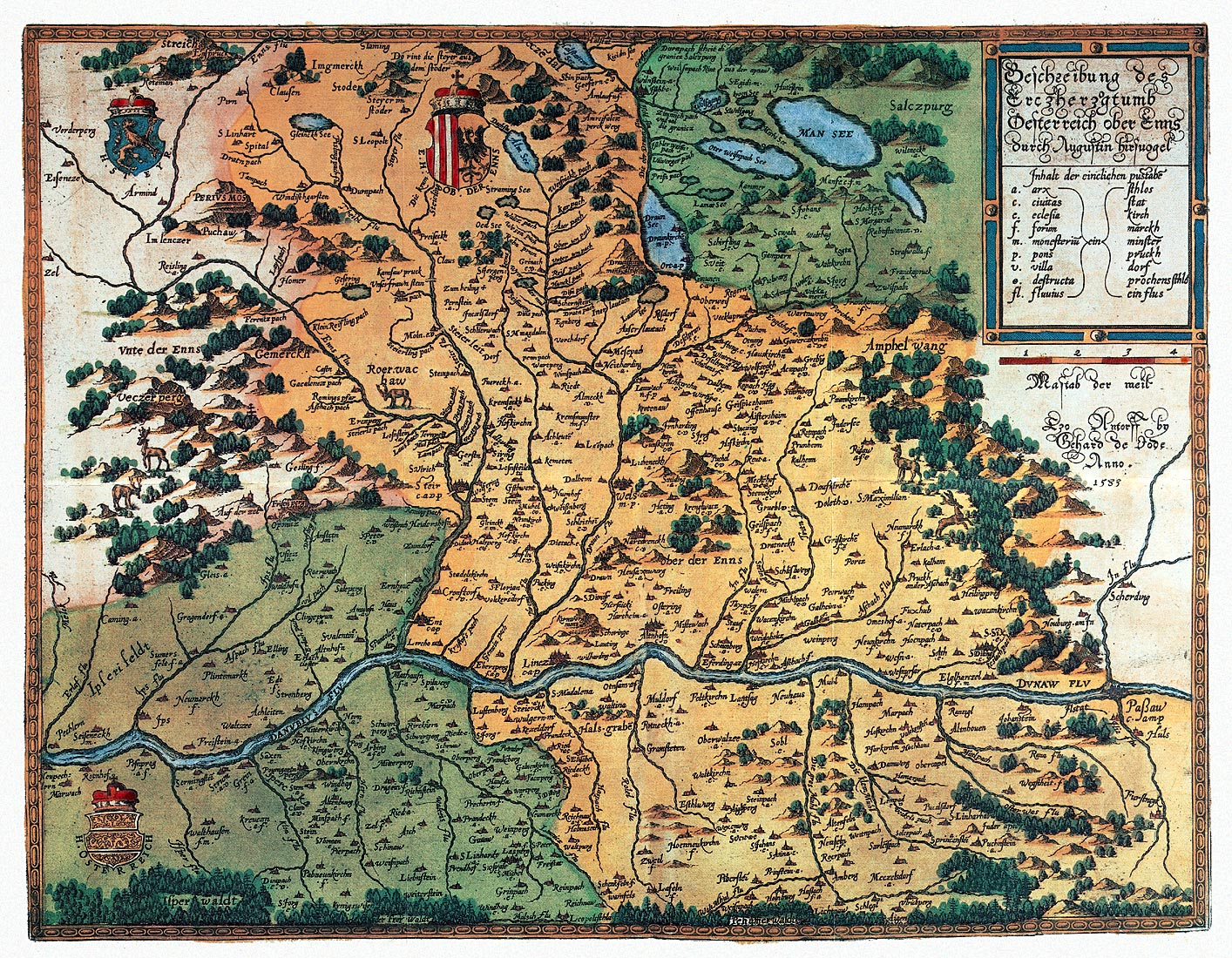 Map of Austria (Erczherzogtumb Oesterreich ober Enns)